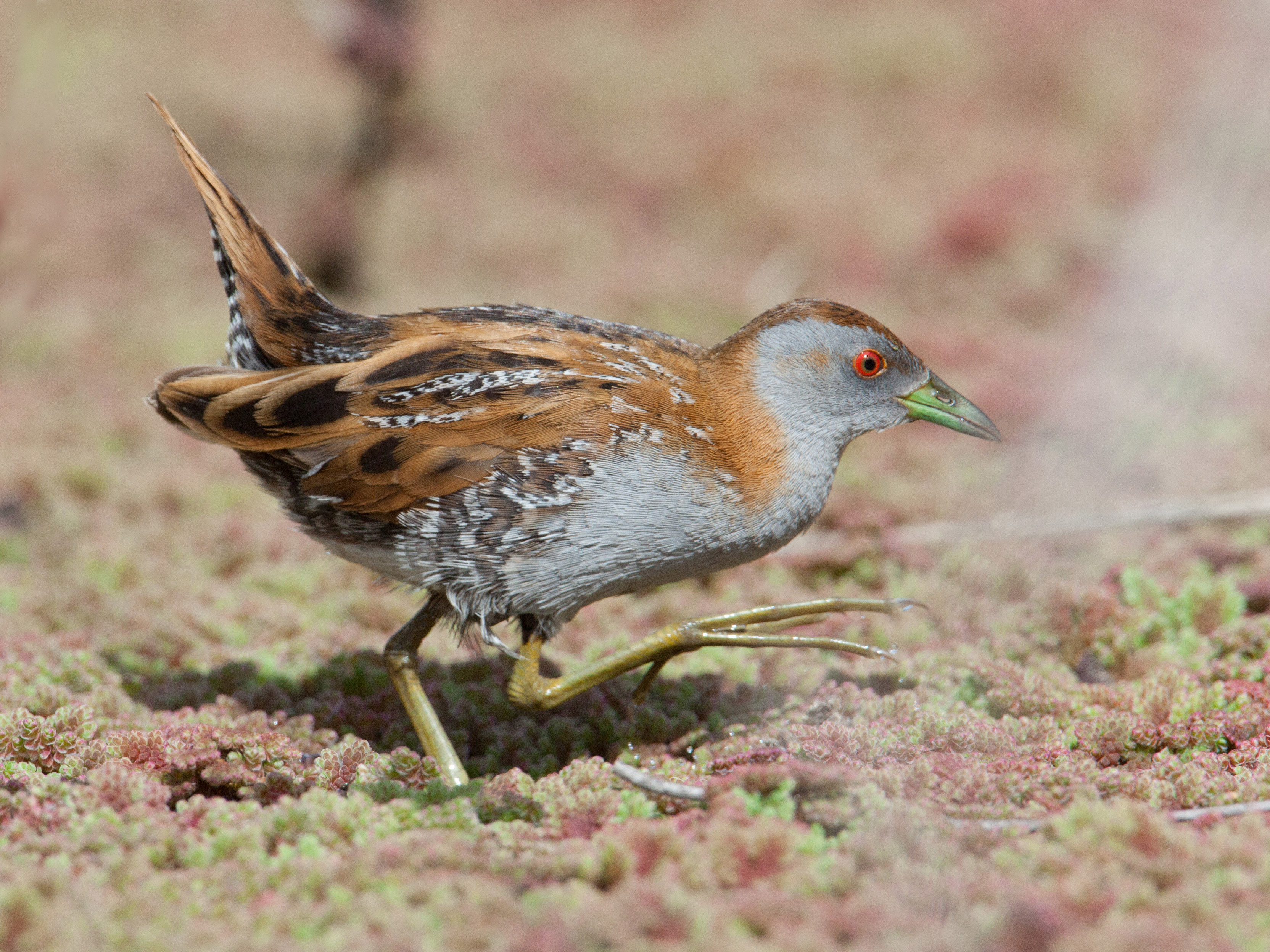 Baillon's Crake. I had a free hour this afternoon, so I visited my nearby swamp, that is about a kilometre from my home, in an attempt to get a better shot of the Baillon's Crake. ALMOST got the shot I wanted, with the raised leg, showing the enormous feet, but there was a bloody twig in the way!!!!!! Should have taken the shot a fraction of a second earlier. Next time, perhaps! I really don't know why I am posting the shot, but I guess this is the nature of bird photography.